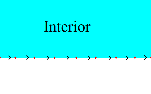 Aperigon with one side filled